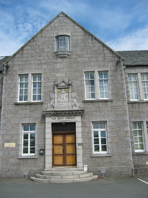 Rowett Institute. The Reid library entrance to the Rowett Institute. Thomas Reid (1710-1796) was a Professor of Philosophy at the University of Aberdeen.